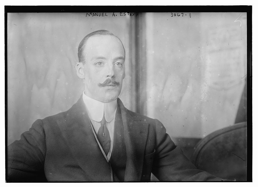 Manuel A. Esteva in 1914 Bain News Service,, publisher. Manuel A. Esteva [between ca. 1910 and ca. 1915] 1 negative : glass ; 5 x 7 in. or smaller. Notes: Title from unverified data provided by the Bain News Service on the negatives or caption cards. Forms part of: George Grantham Bain Collection (Library of Congress). Format: Glass negatives. Repository: Library of Congress, Prints and Photographs Division, Washington, D.C. 20540 USA, General information about the Bain Collection is available at Persistent URL: Call Number: LC-B2- 3067-1 Comments and faves